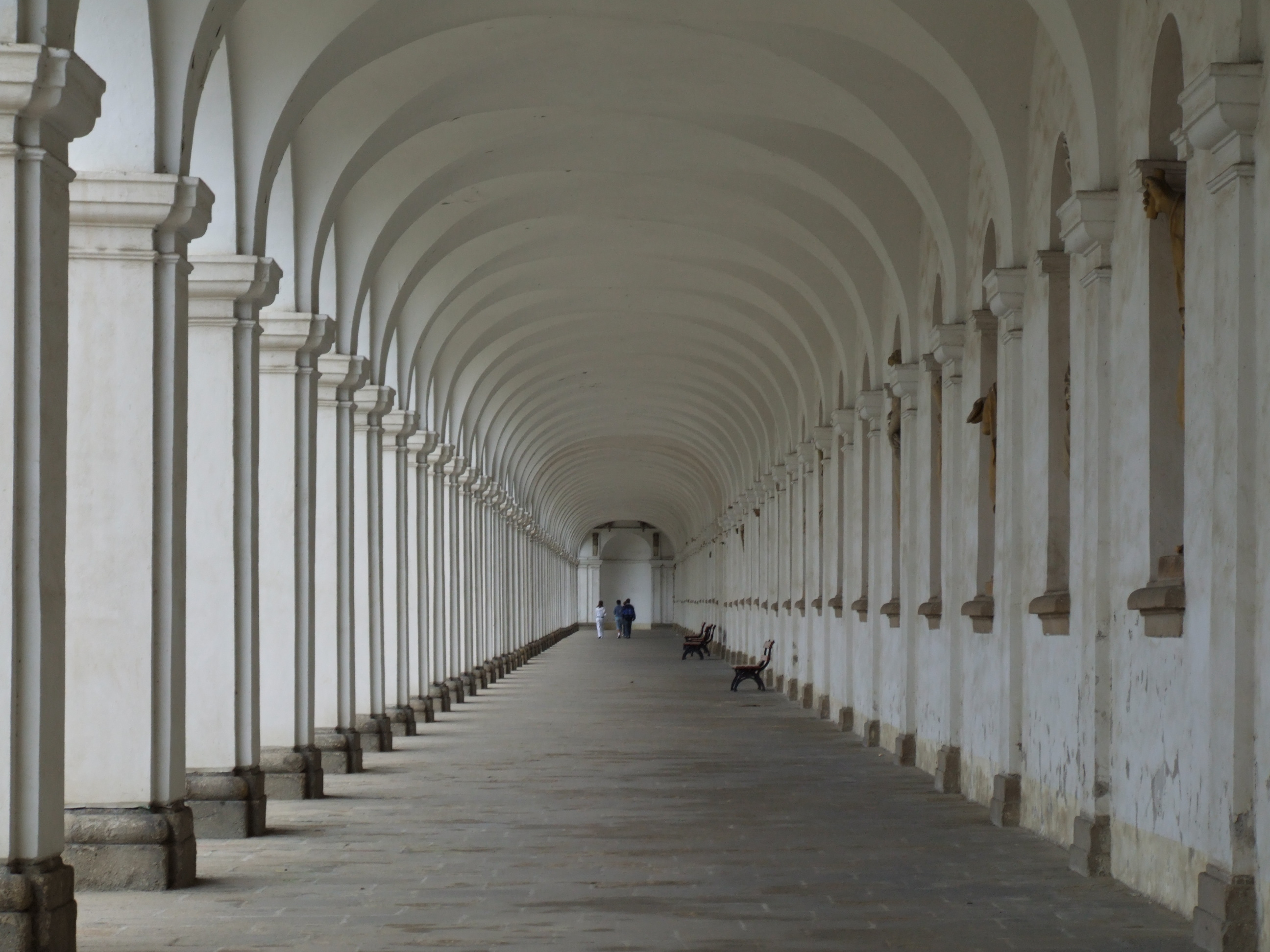 Galery in Flower Garden (Květná zahrada). Kroměříž (Kremsier), Moravia, Czech Republic